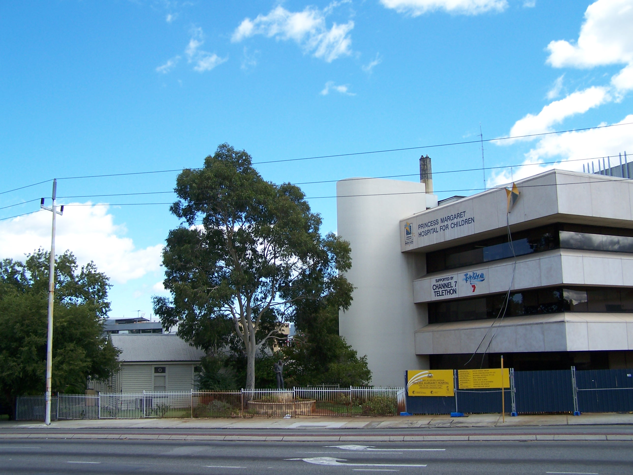 Princess Margret Hospital (PMH) Subiaco, WA.